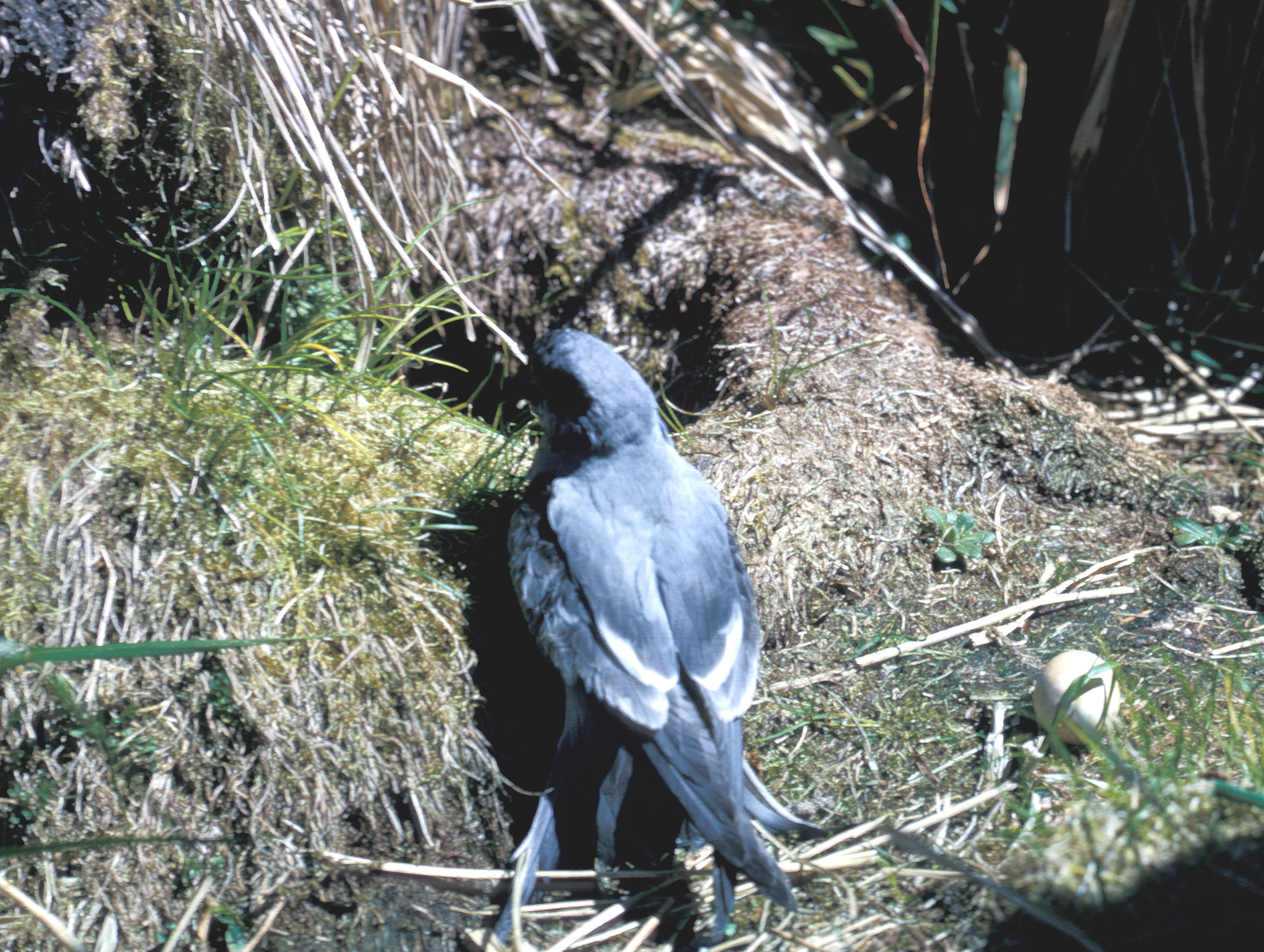 Fork-tailed Storm Petrel (Oceanodroma furcata), St. Lazaria Island, Alaska[1]